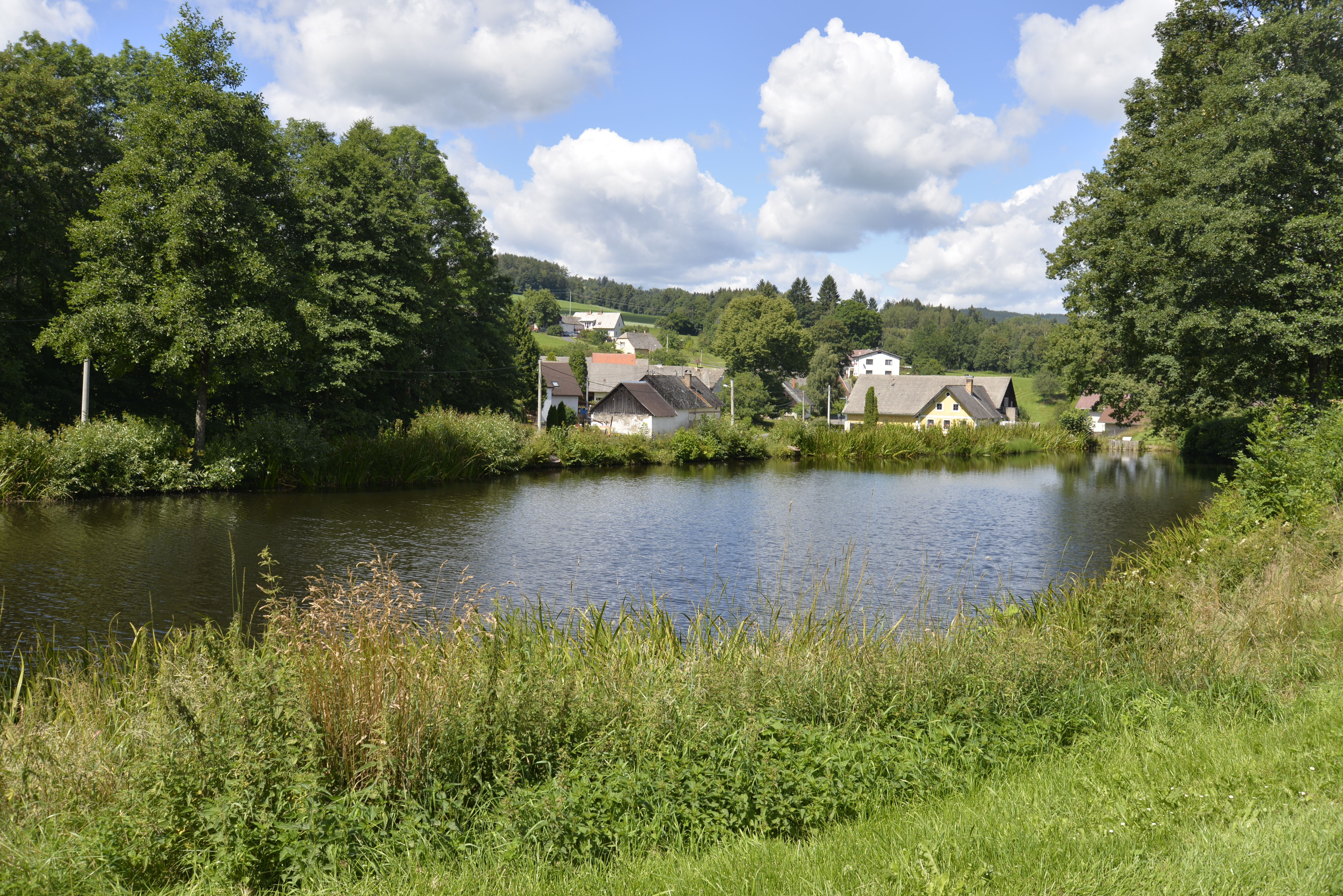 Milínov - part of Hlavňovice in Klatovy District